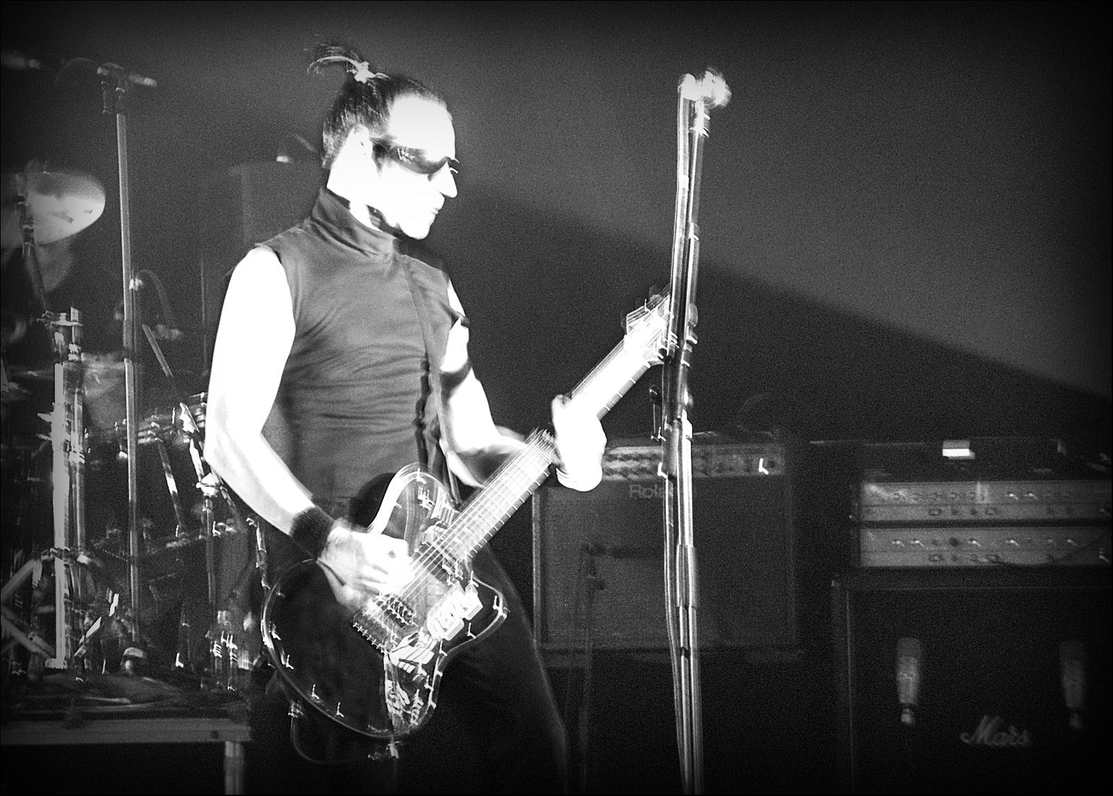 Guitarist Daniel Ash in concert with Bauhaus in London.